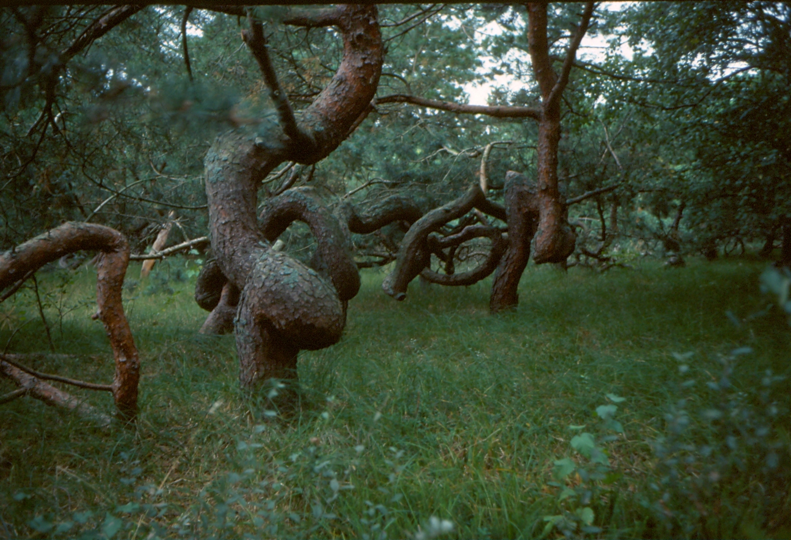 Pinus sylvestris, deformed by wind. Approx. 60 years old, planted on sandy land close by the coast of Halland, Sweden.